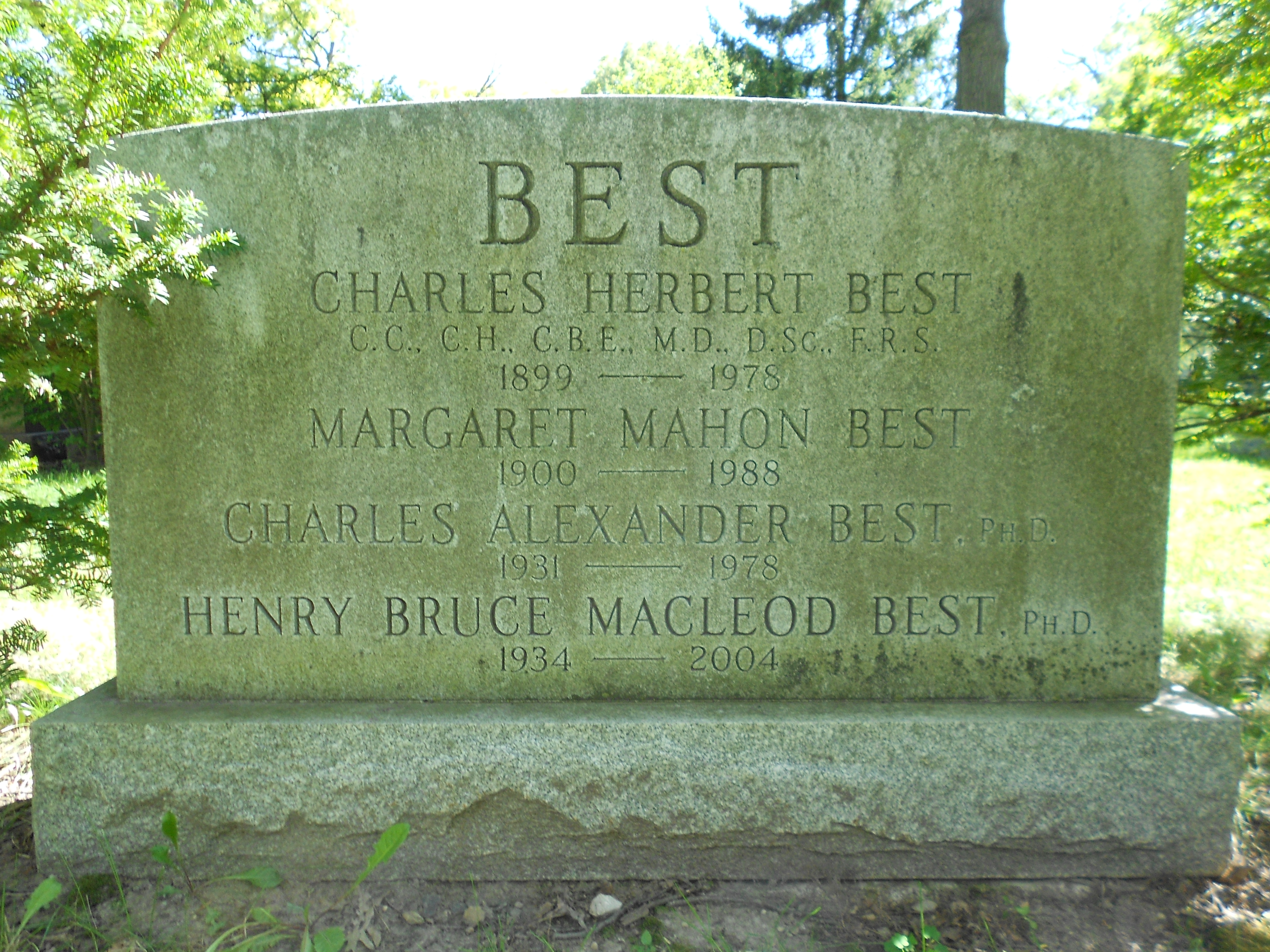 Charles Herbert Best Gravestone in Mt. Pleasant Cemetery Toronto.